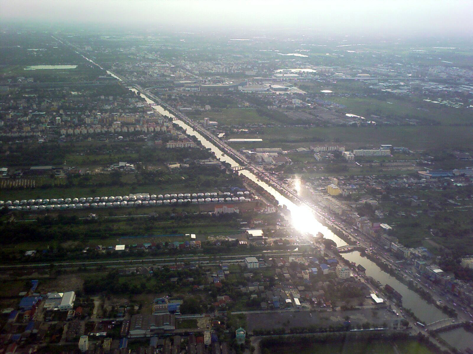 Sunlight is reflected in the surface of Rangsit Canal in this aerial photograph of the former Rangsit Fields (Thung Rangsit) area of Pathum Thani Province, Thailand. Dredged between 1890 and 1905, the canal and its related system was Thailand's first major irrigation project and enabled widespread rice cultivation in the Rangsit Fields. Lately, much of the area has been developed into residential estates.